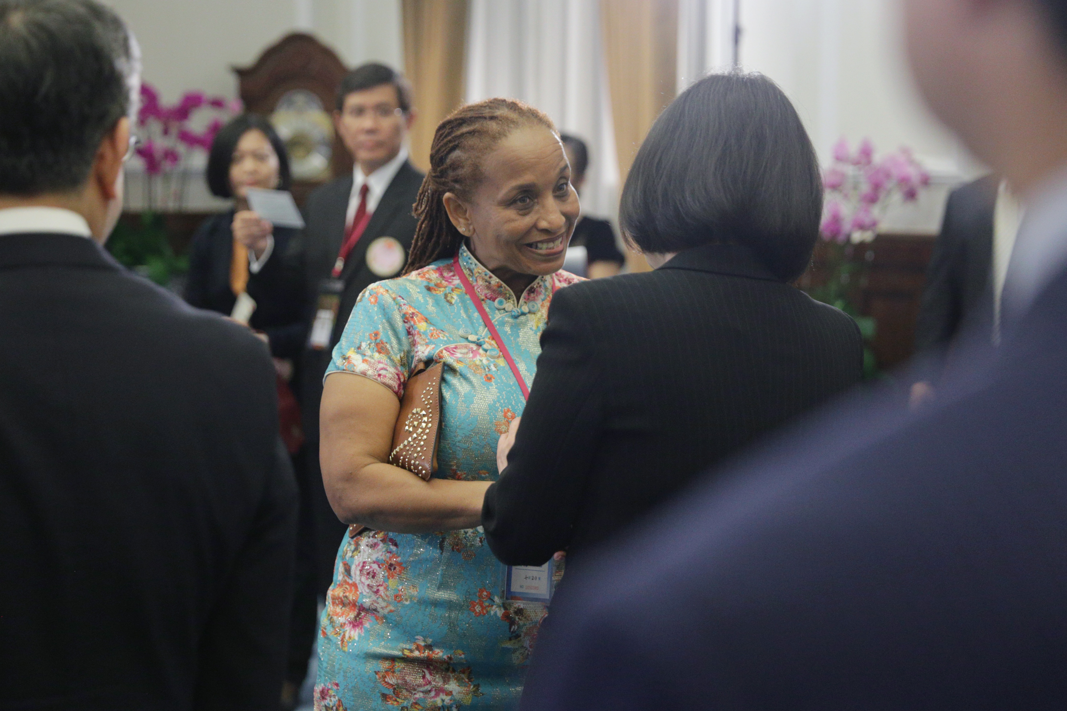 Belize Ambassador Diane Haylock extends congratulations to President Tsai for the ROC 2016 National Day celebration.